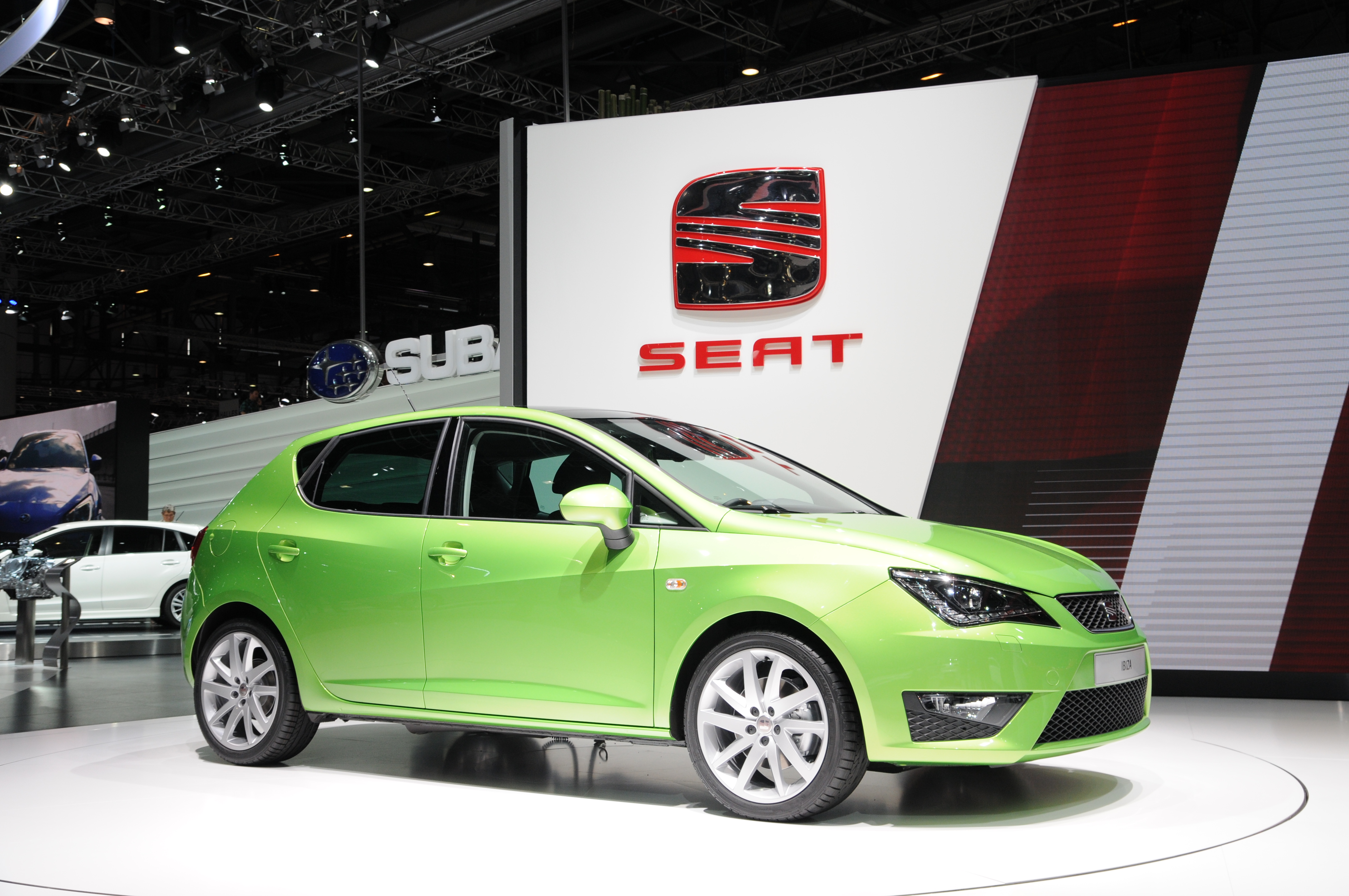 Geneva Motor Show 2012 (photos taken on the second press day)